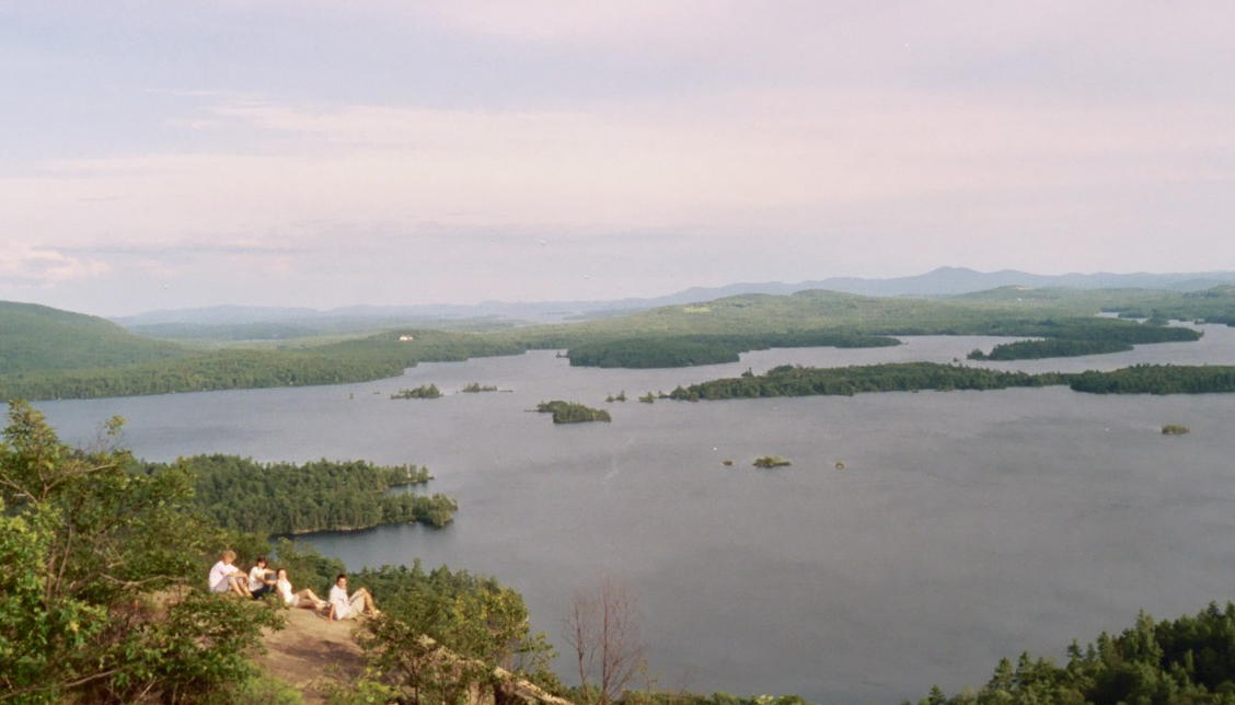 Image of Squam Lake, taken by Linda Cendes, 2004. Permission obtained for uploading the image.